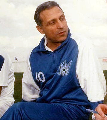 Eitan Ben-Eliahu, former Israeli air force chief.